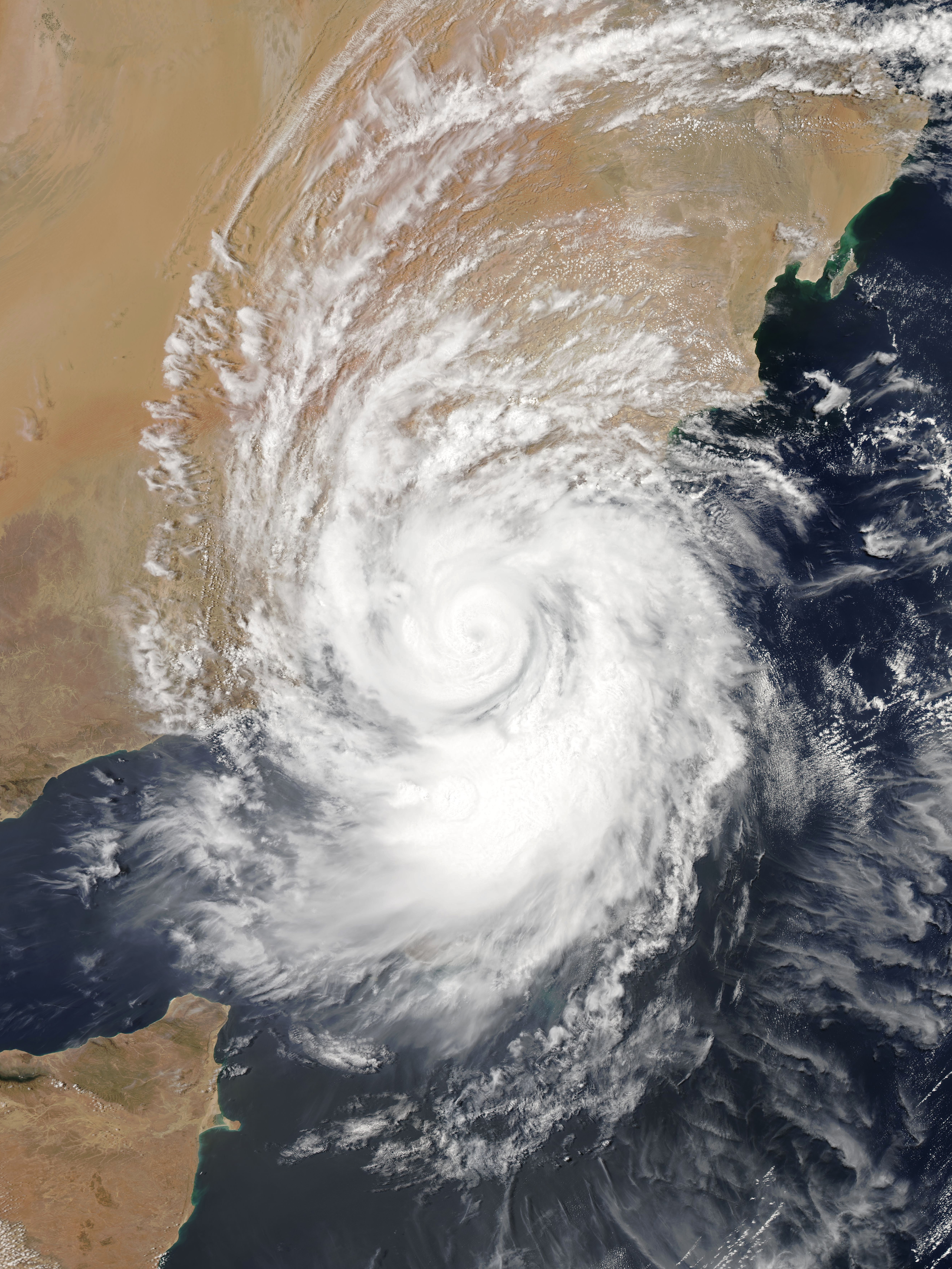 Extremely Severe Cyclonic Storm Mekunu approaching Salalah, Oman on 25 May 2018, shortly before peak intensity.